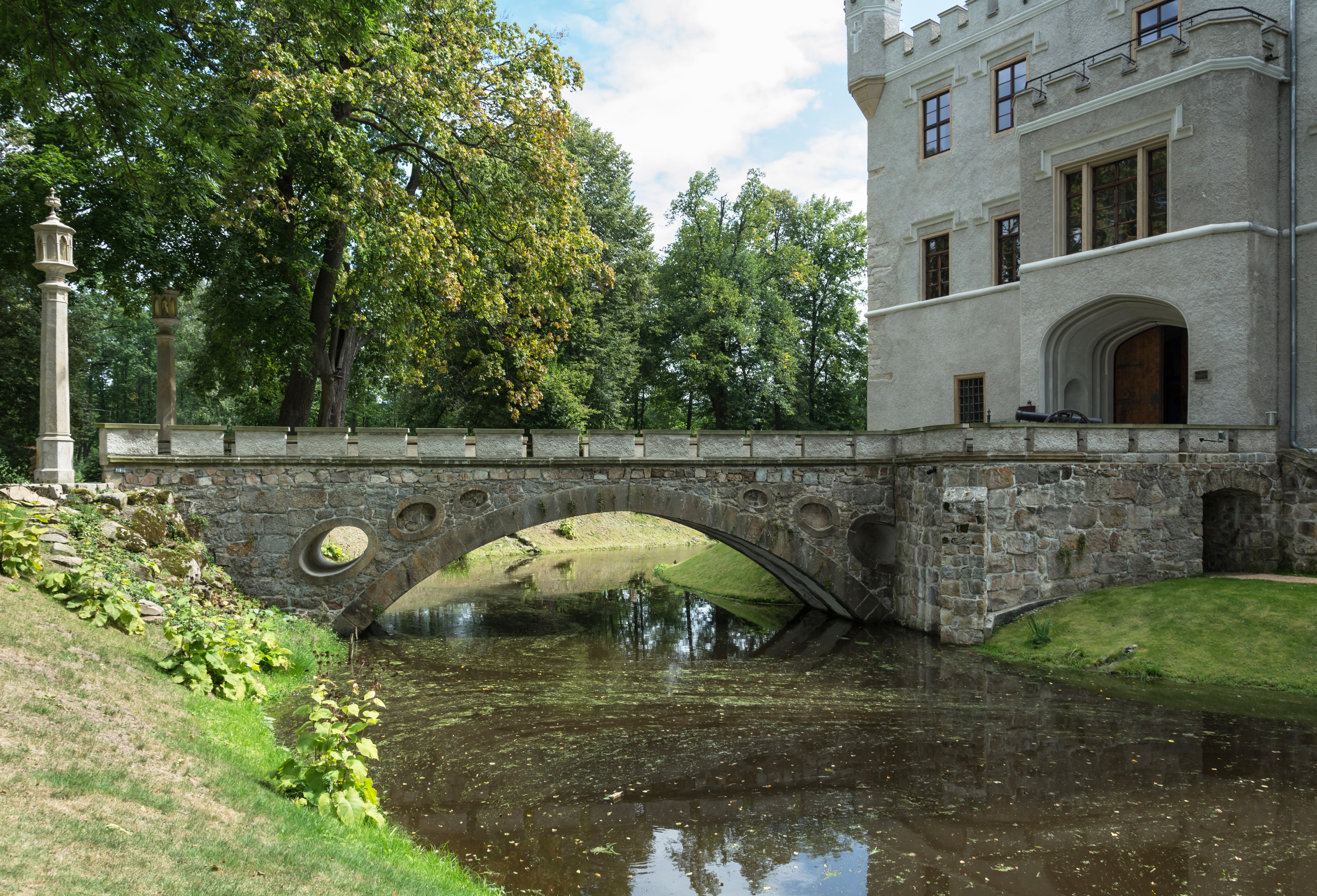 Karpniki Castle